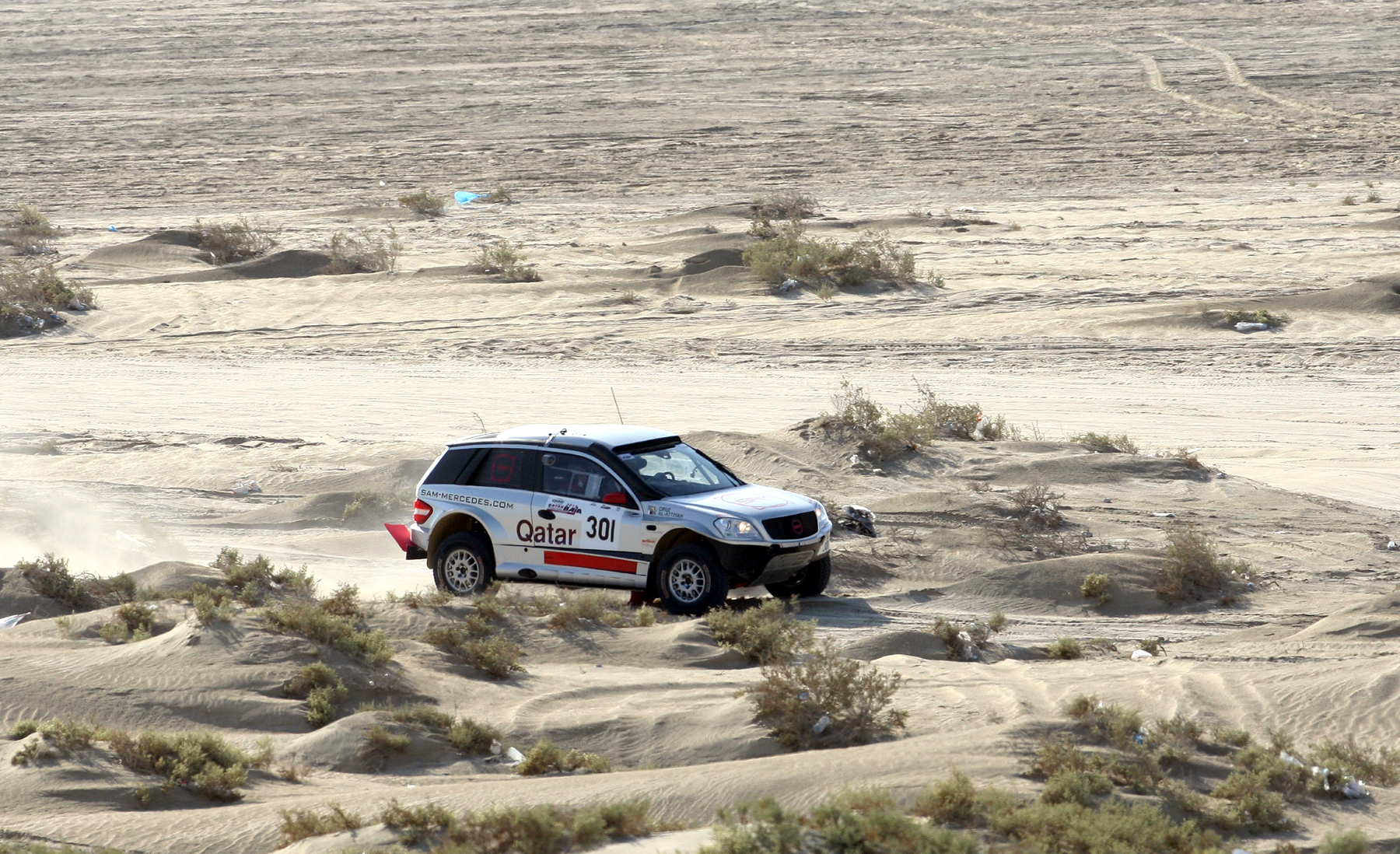 Qatari driver Nasser Saleh Al Attiyah competes in the Qatar International Baja.